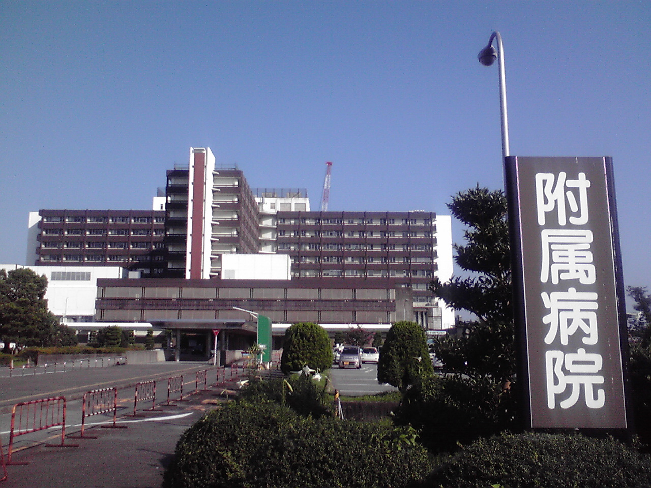 This is the Mie University Hospital.